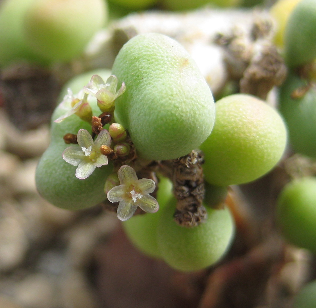 Portulacaria pygmaea, previously Ceraria pygmaea — Pygmy porkbush; closeup. Native to the border between Namibia and South Africa.